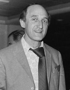 Ron Moody